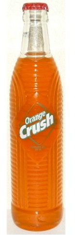 Orange crush Bottle in Mexico